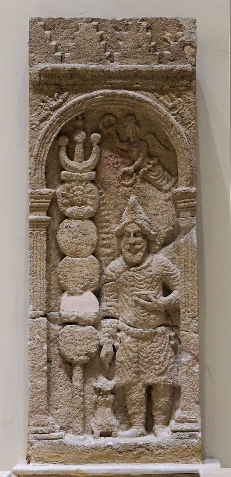 Relief of Sanatruk I